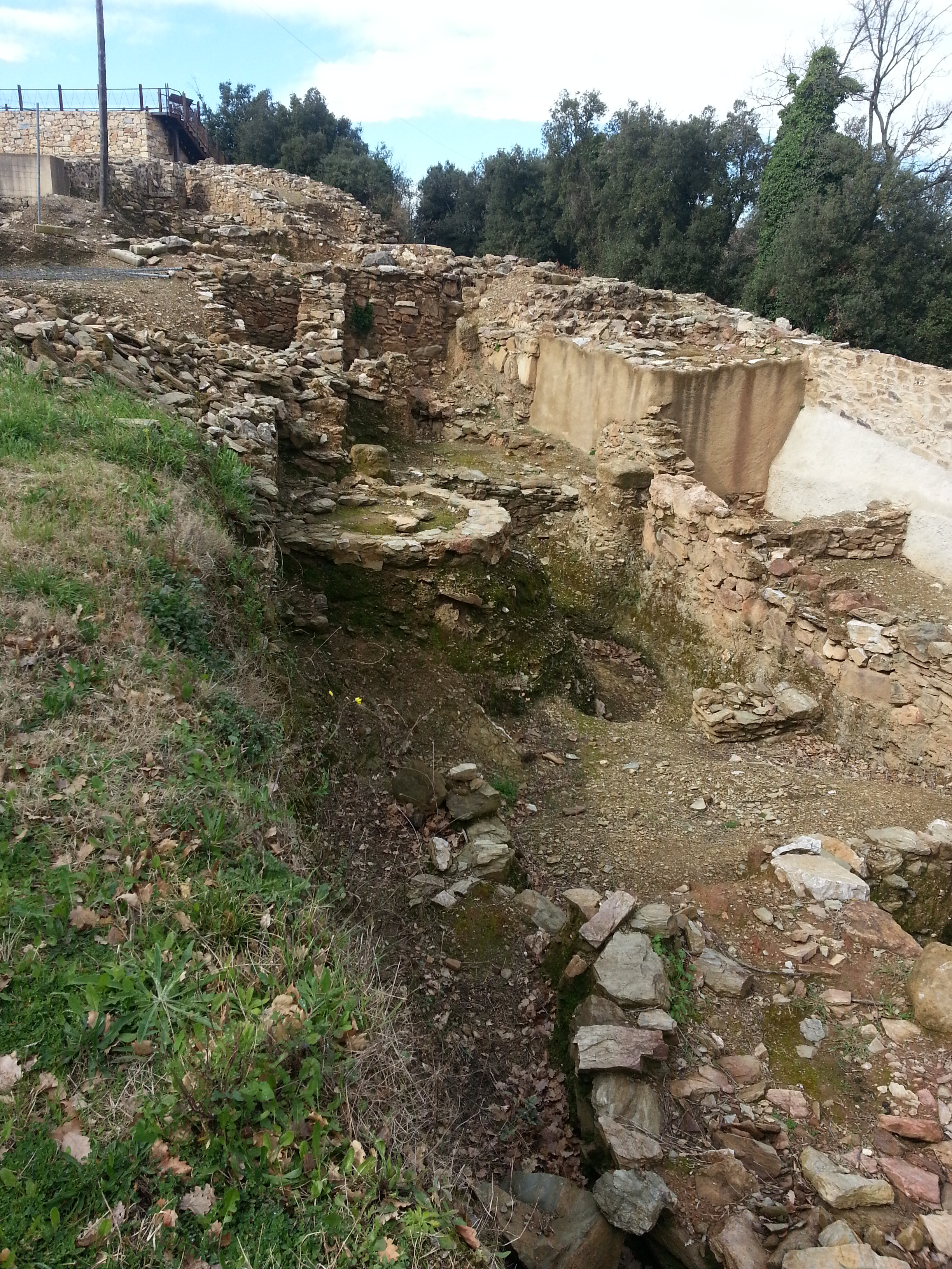 Iberian Village of Sant Julià de Ramis